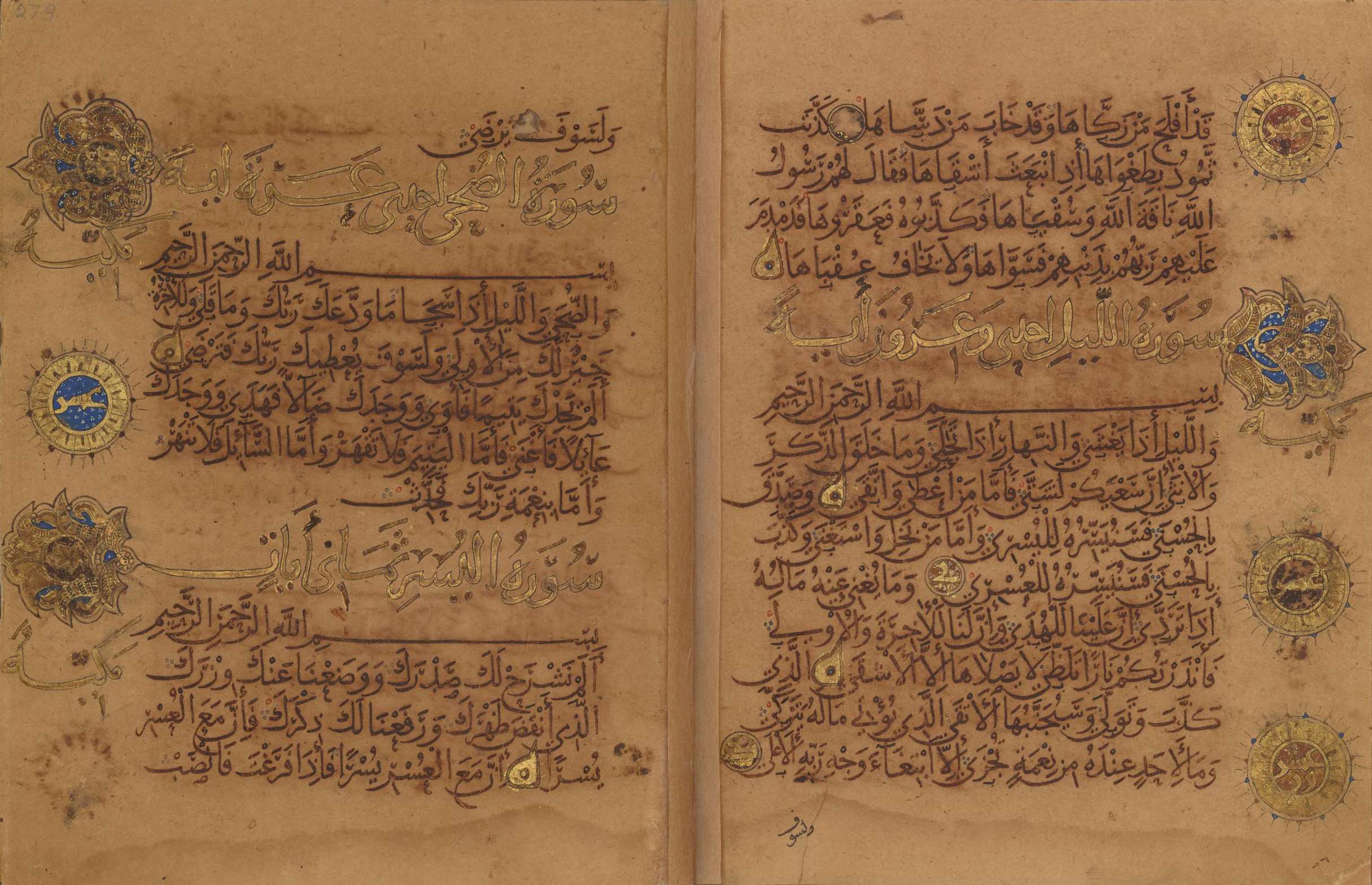 The script he has used in this Qur'an is considered by many to be a naskh-rayhan variant, rather than pure naskh. This Qur'an is thought to be the earliest existing example of a Qur'an written in a cursive script. It is also important as an early example of a Qur'an copied in a vertical format on paper. Same as File:Ibn al-Bawwab - Qur'anic Manuscript.jpg.